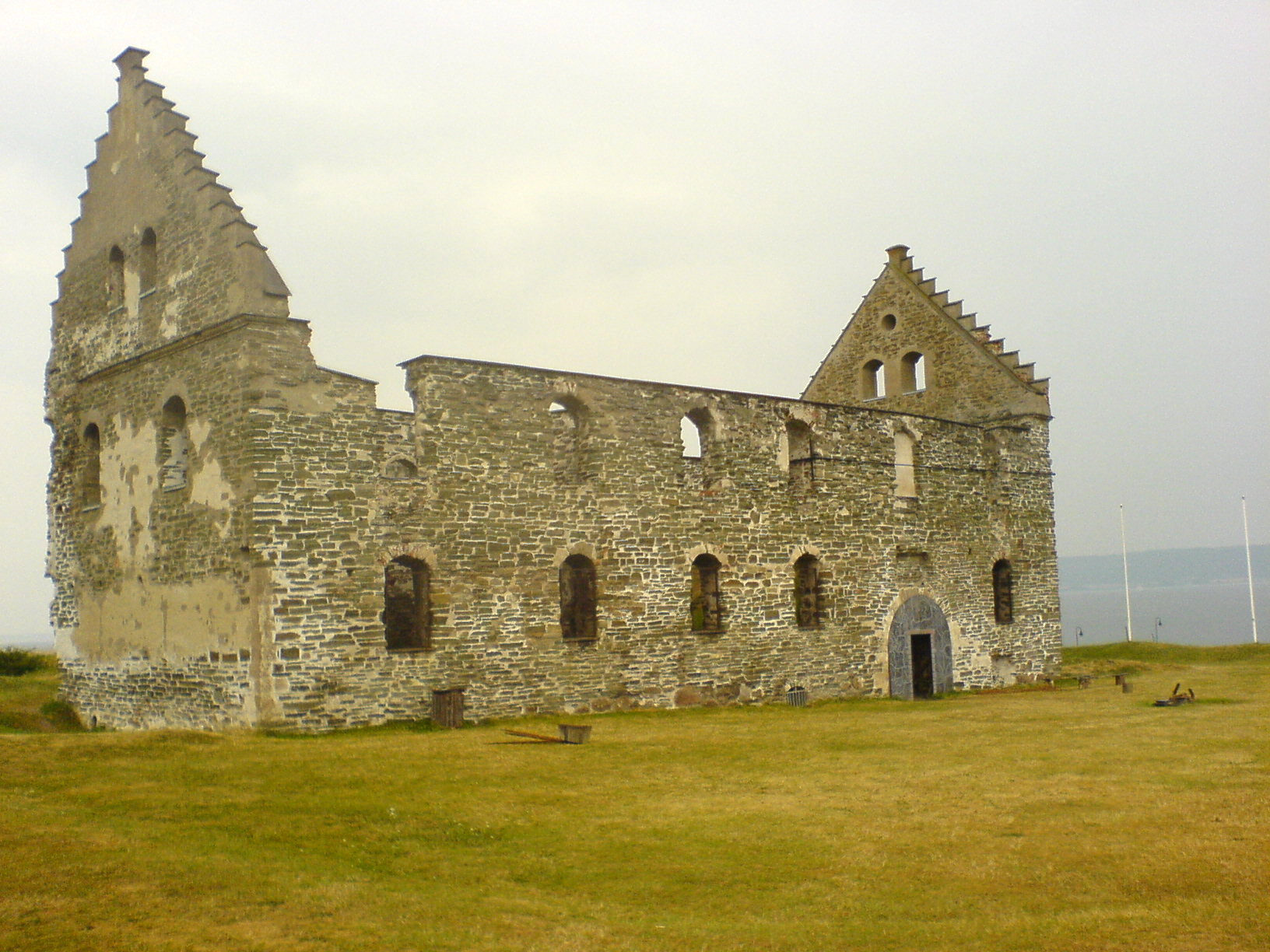 Ruin of Visingsborg castle on Visingsö, Sweden